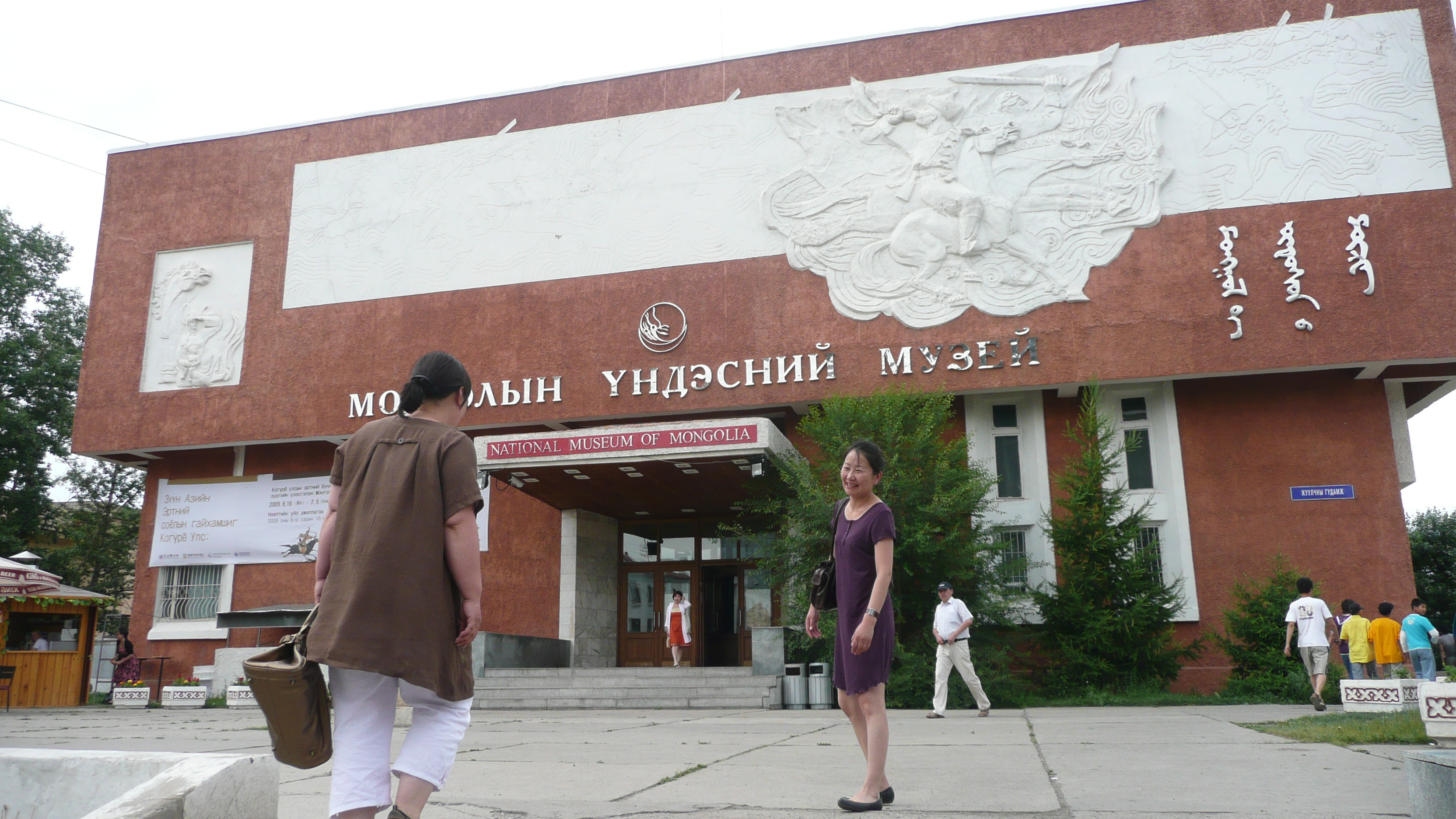 National Museum of Mongolian Histroy in Ulan Btor